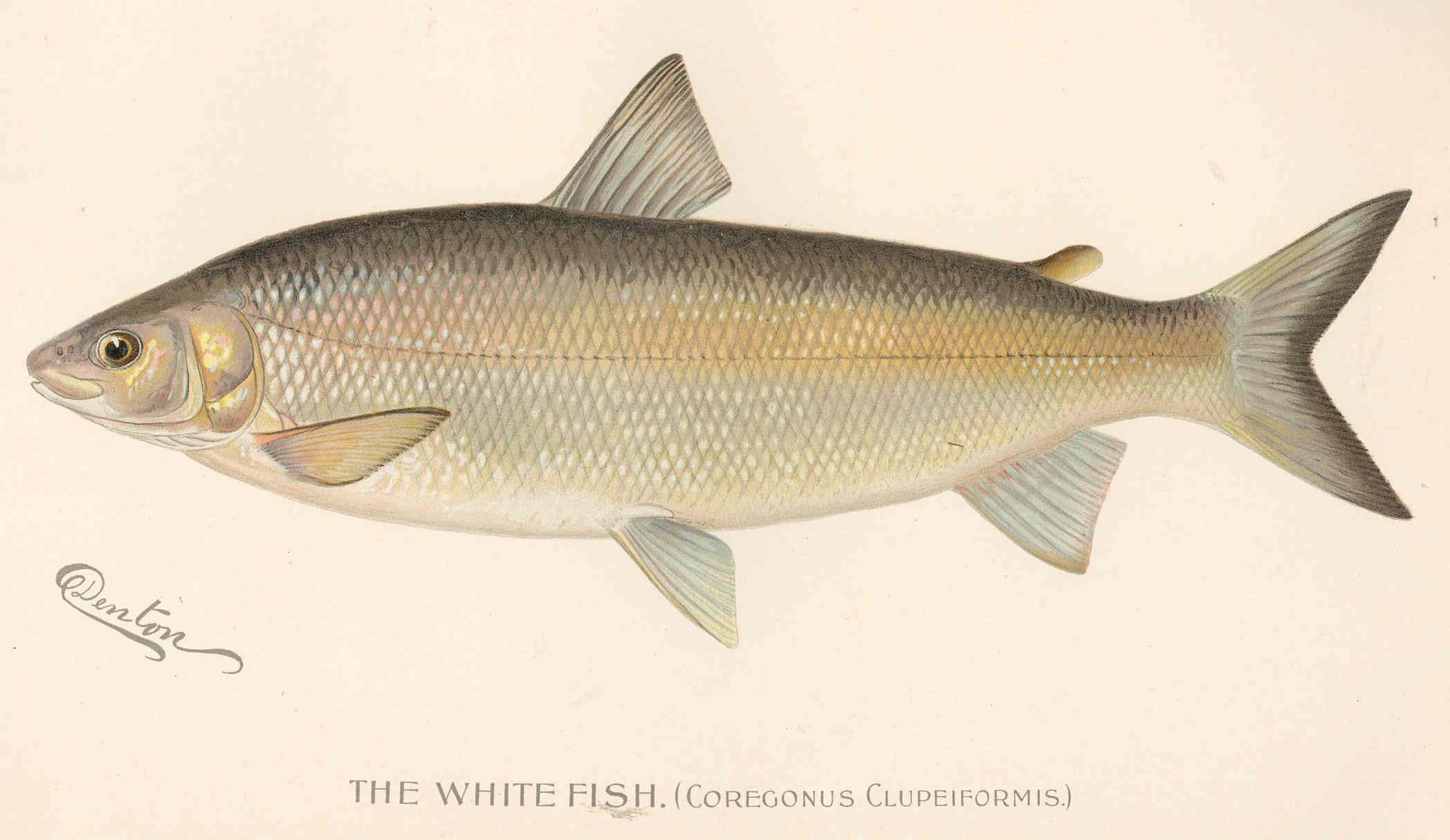 White Fish (Coregonus clupeiformis) Subject: Lake whitefish Tag: Fish